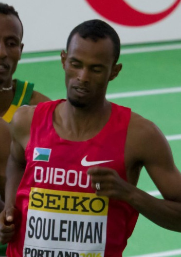 Ayanleh Souleiman during 2016 IAAF World Indoor Championships in Portland